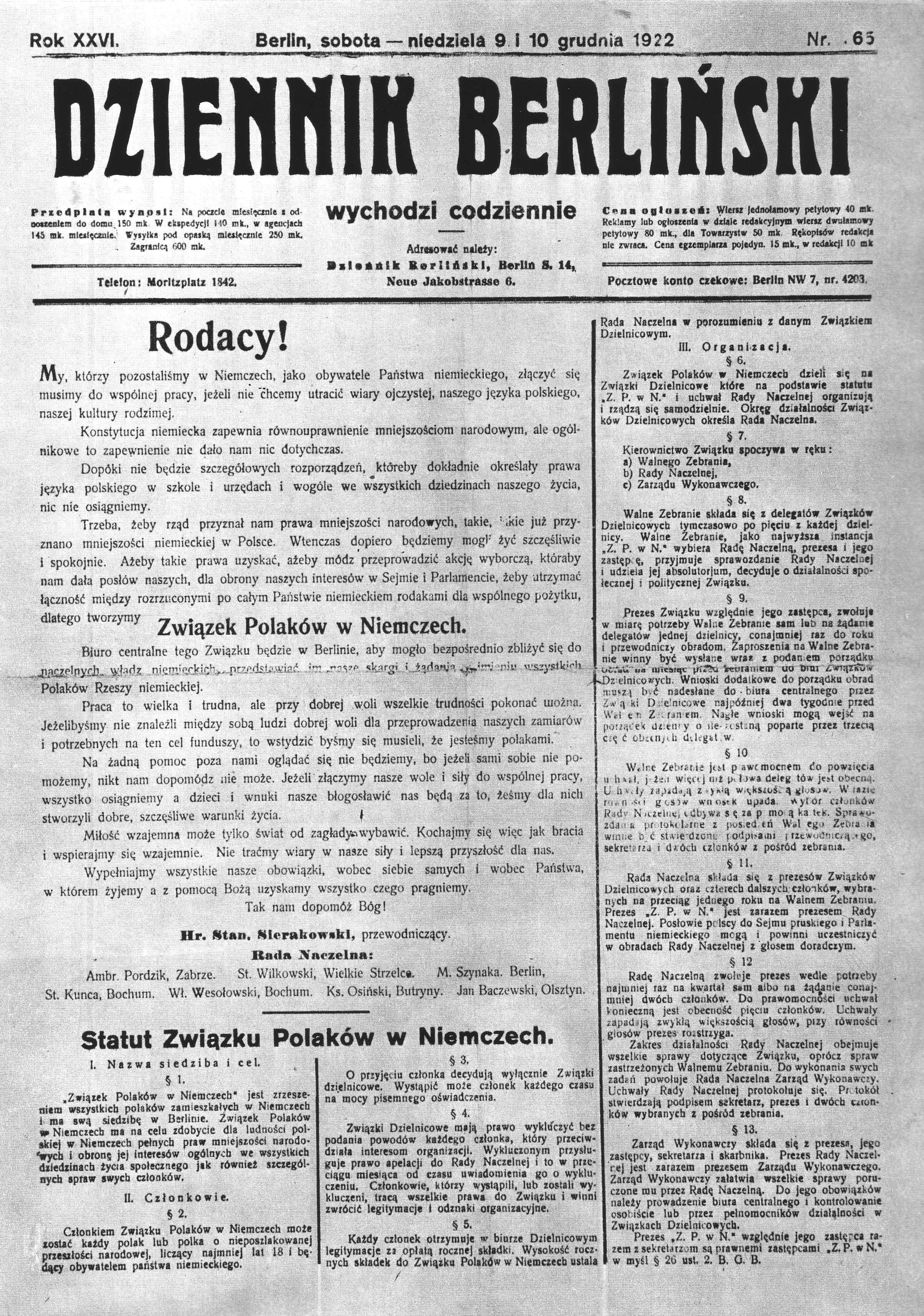 First page of "Dziennik Berlinski" from December 9-10, 1922